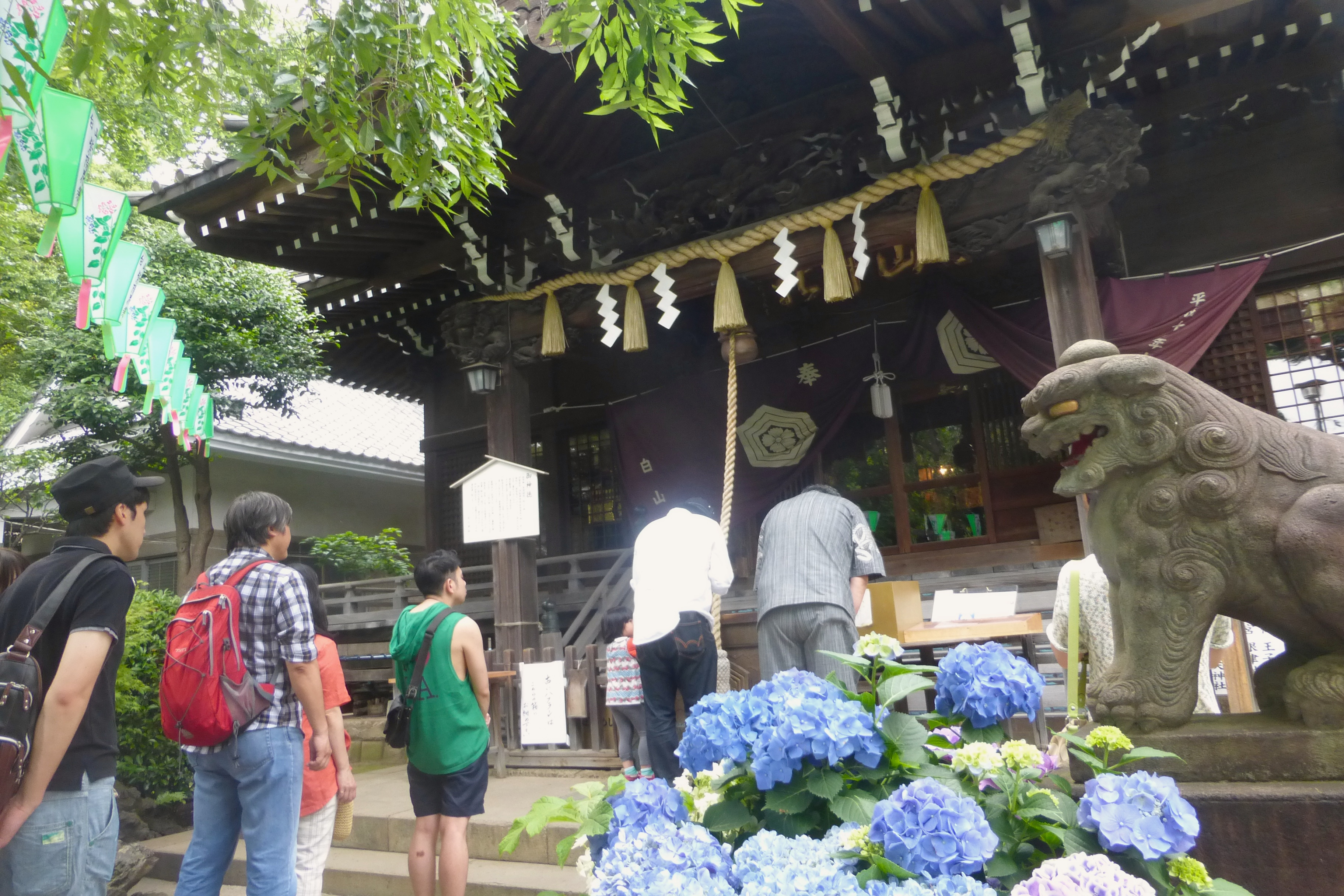 白山神社（はくさんじんじゃ）は、東京都文京区にある神社である。 Hakusan Shrine is a Shinto shrine in Bunkyo ward, Tokyo.